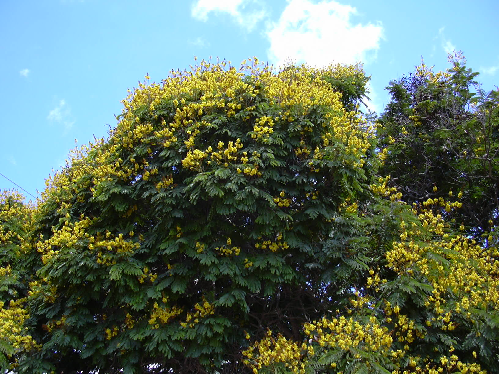 Peltophorum pterocarpum (flowers). Location: Maui, Kihei